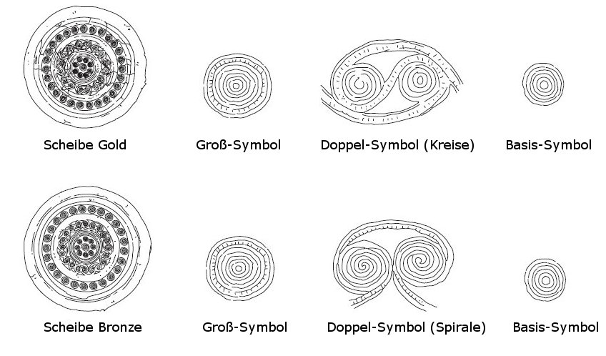 Symbol Types of the Sun chariot of Trundholm